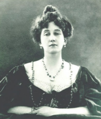 Mabel Batten as a young woman